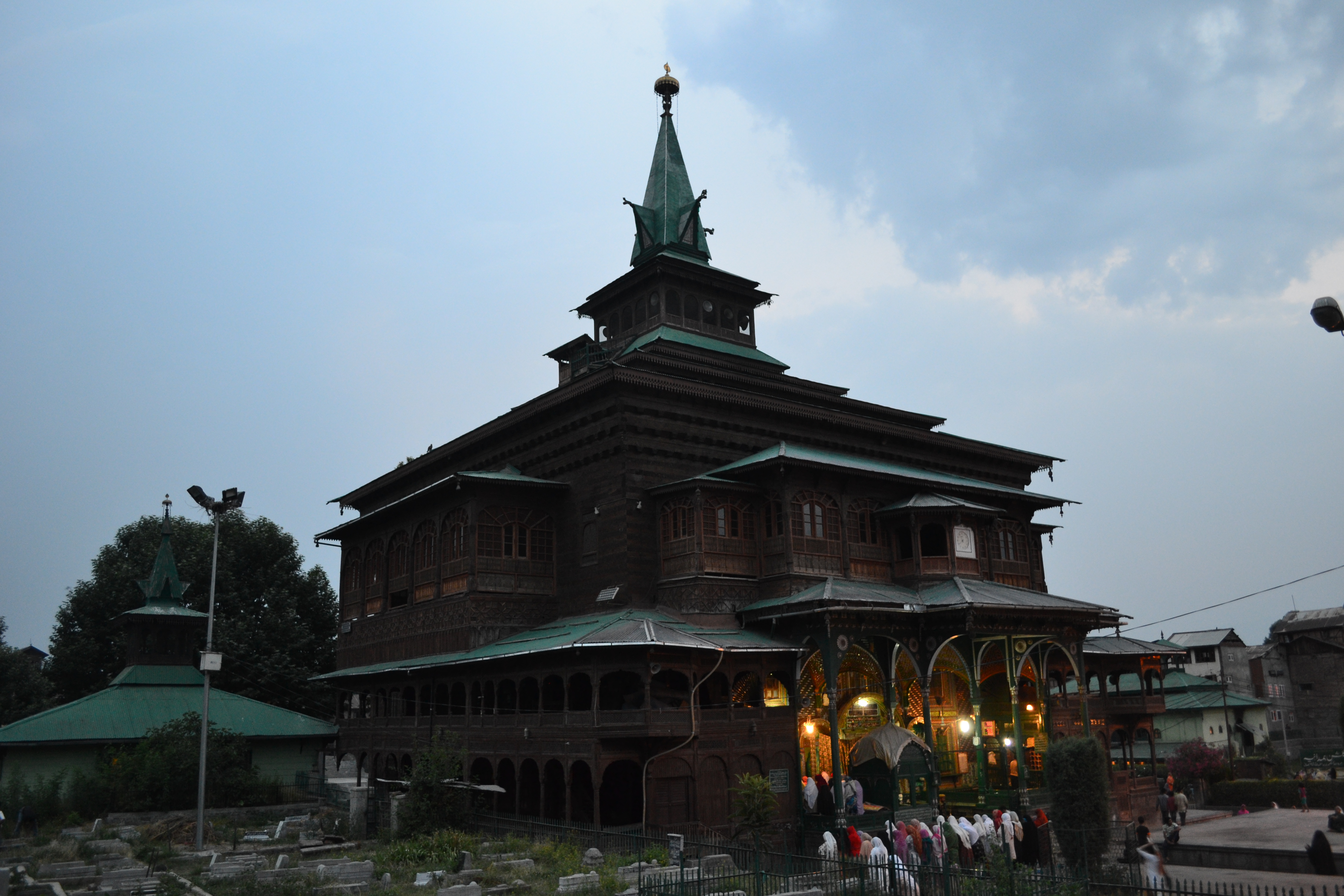 Khan Qah of Shah Handan